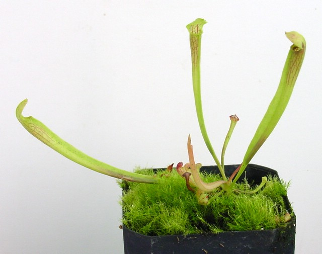 Description: Sarracenia alata seedling, 2 years old. Notice first year leaves around base. Photo taken by: Noah Elhardt